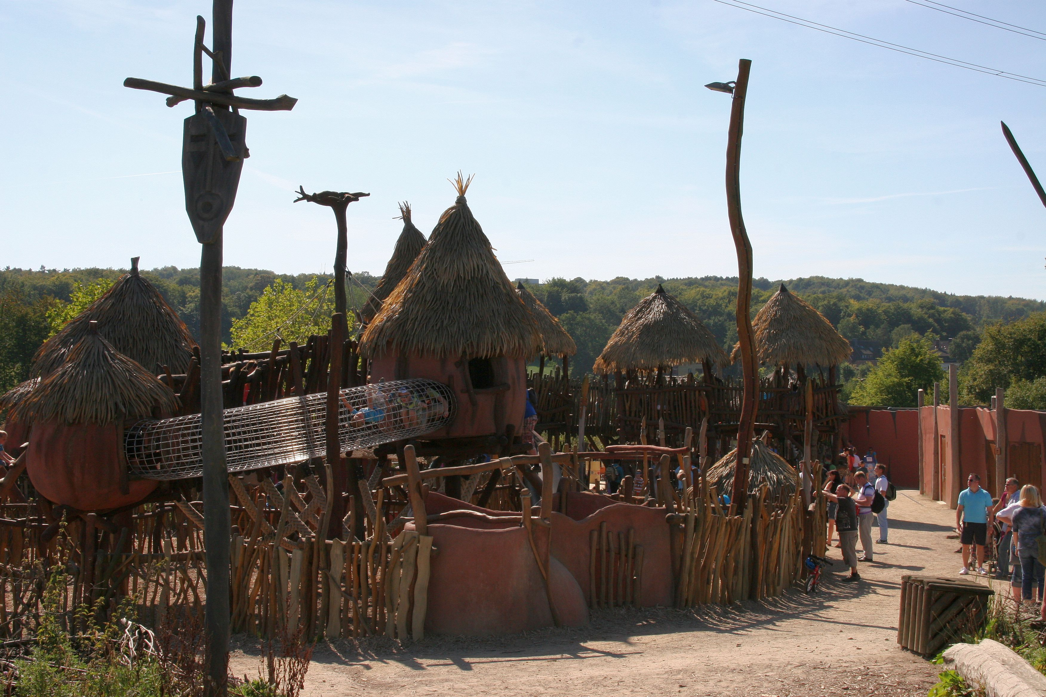 Zoo Osnabrück: Spielplatz in Takamanda